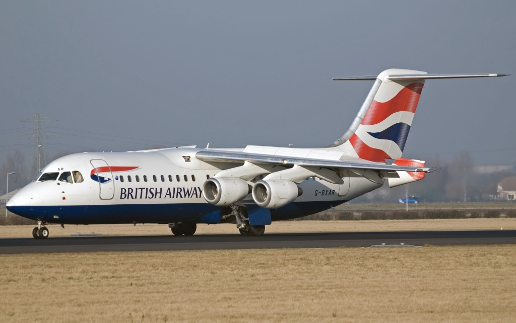 British Aerospace Avro 146-RJ100 Amsterdam schiphol [AMS / EHAM] 30-01-2009